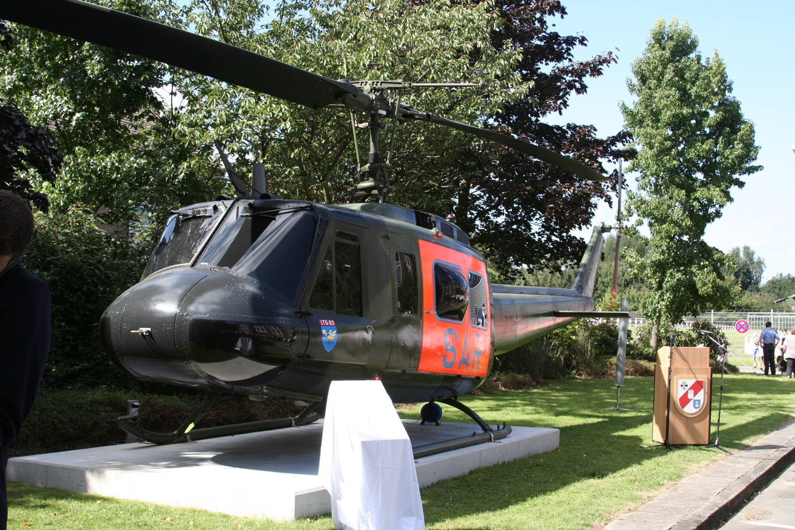 Monument of a Bell UH-1D helicopter honoring the decades-lasting participation of the German Armed Forces in Hamburg's pre-hospital air ambulance care. Located at the military hospital; taken on Aug/30, 2008, just prior to the inauguration.